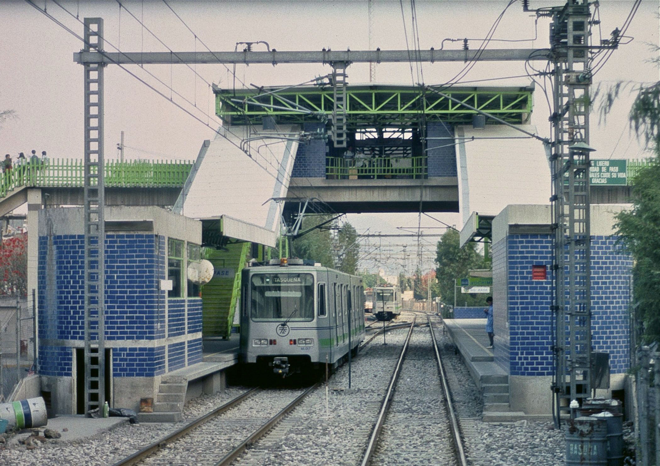 A light rail car on the Xochimilco light rail line operated by Mexico City's Servicio de Transportes Eléctricos, at what was then (March 1995) the terminus, "Estación Xochimilco", but was later renamed "Estación Francisco Goitia", after the service was extended closer to the center of Xochimilco. This photo of car 017 was taken from the front of an arriving car.